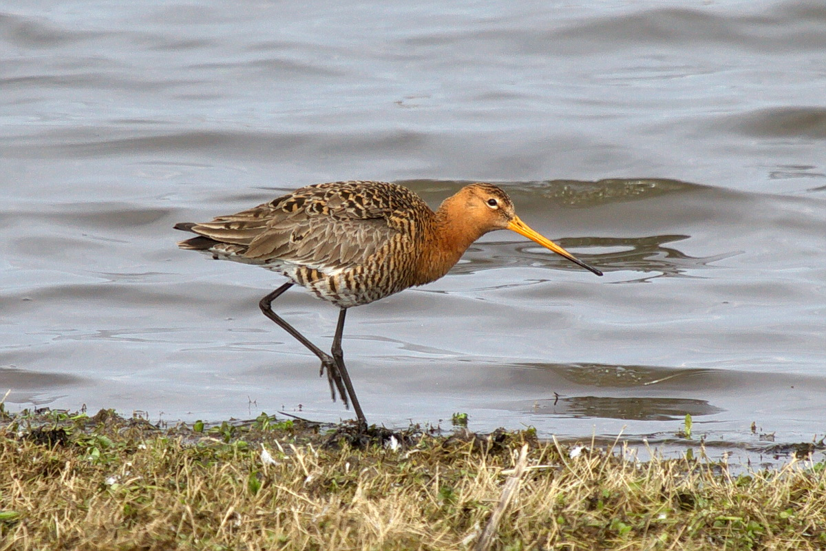 Black-tailed Godwit, Bislicher Insel, Germany